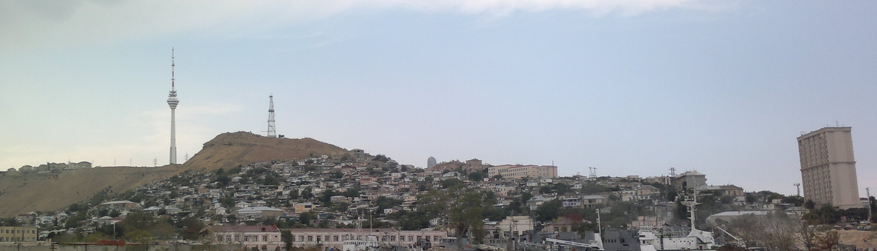 View to Bayil settlement of Baku, Azerbaijan